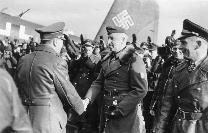 On 10 March 1943, under heavy security, Hitler flew in to Army Group South's headquarters at Zaporozh'ye, Ukraine. Seen here, Generalfeldmarschall Erich von Manstein is greeting Hitler on the local airfield; on the right are Hans Baur and the Luftwaffe Generalfeldmarschall Wolfram von RichthofenTürkçe: Zaporoje'deki Erich von Manstein'in karargâhını ziyaret eden Adolf Hitler (sol). Manstein (orta) ve Wolfram von Richthofen (sağ).